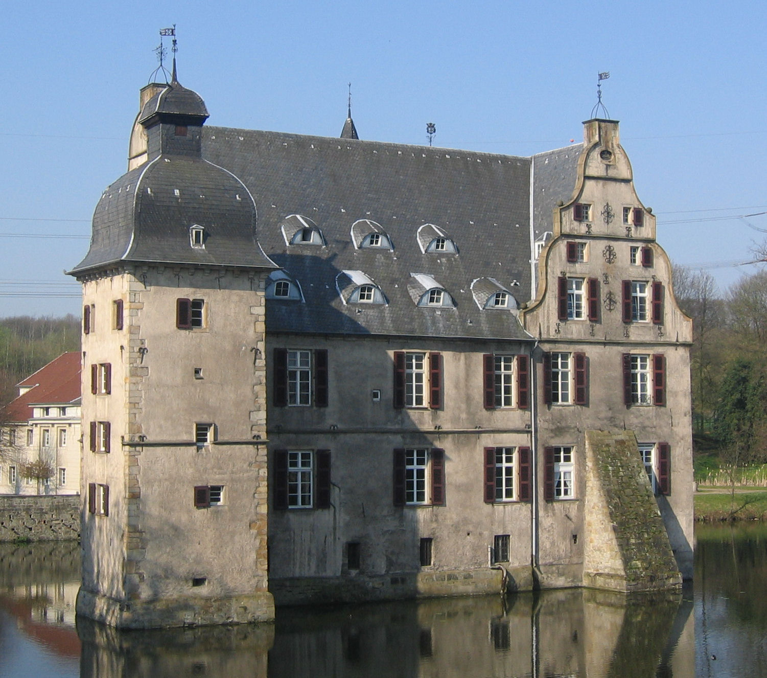 Water castle house Bodelschwing, Germany